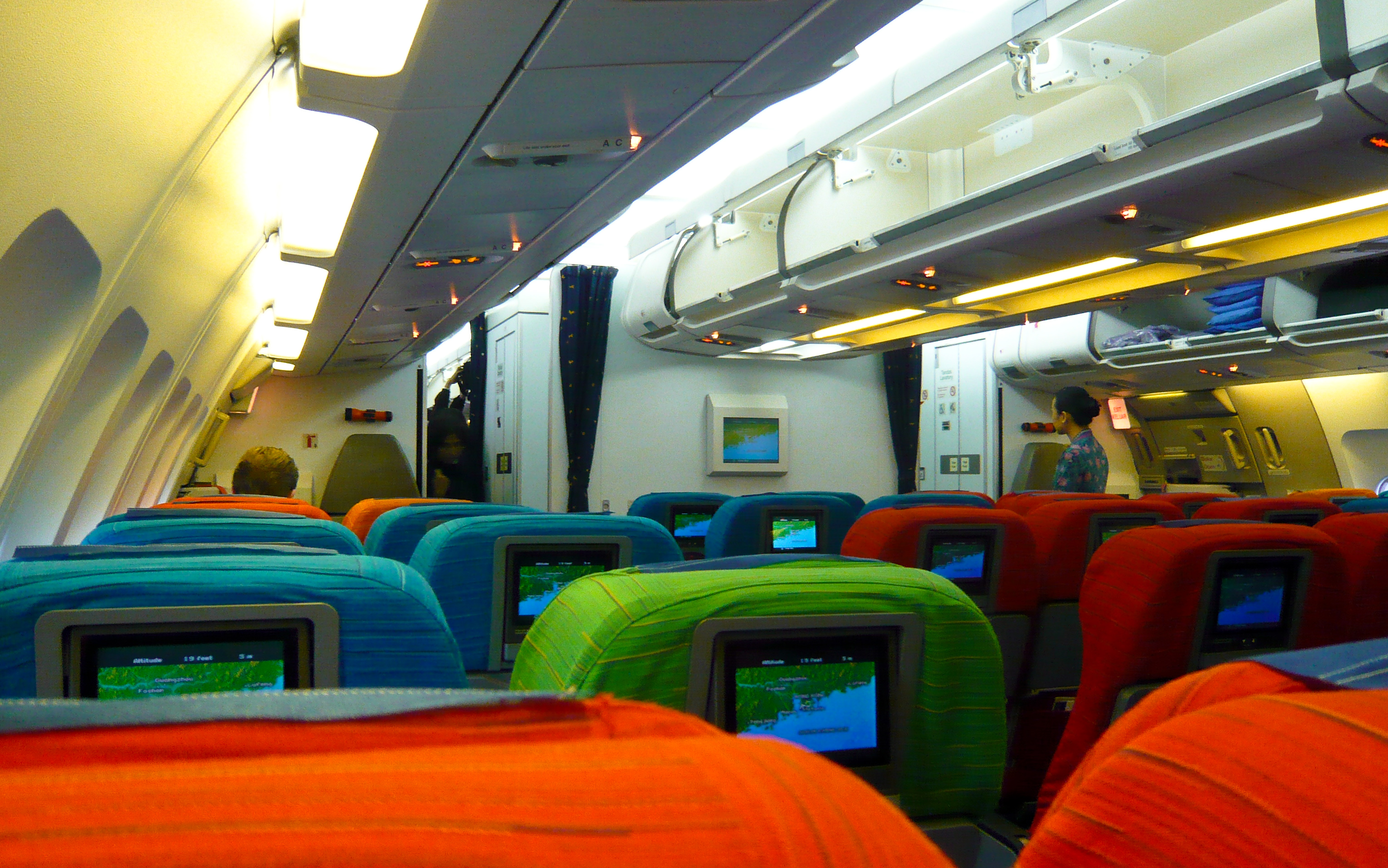 Taken on flight from HKG-KUL